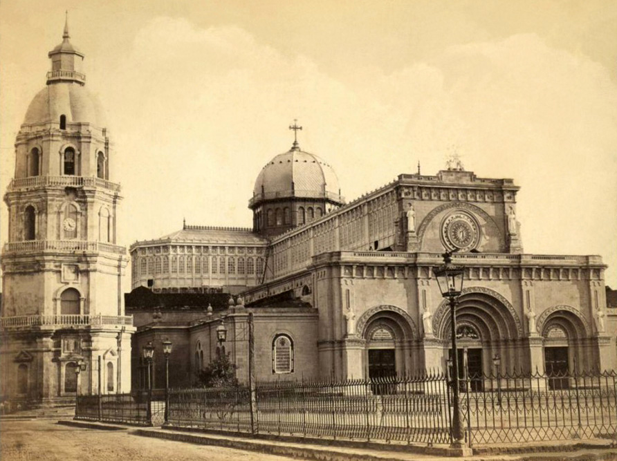 The newly rebuilt Manila Cathedral in 1880 before the earthquake of July 20, 1880, which knocked down the over-a-century old bell tower.